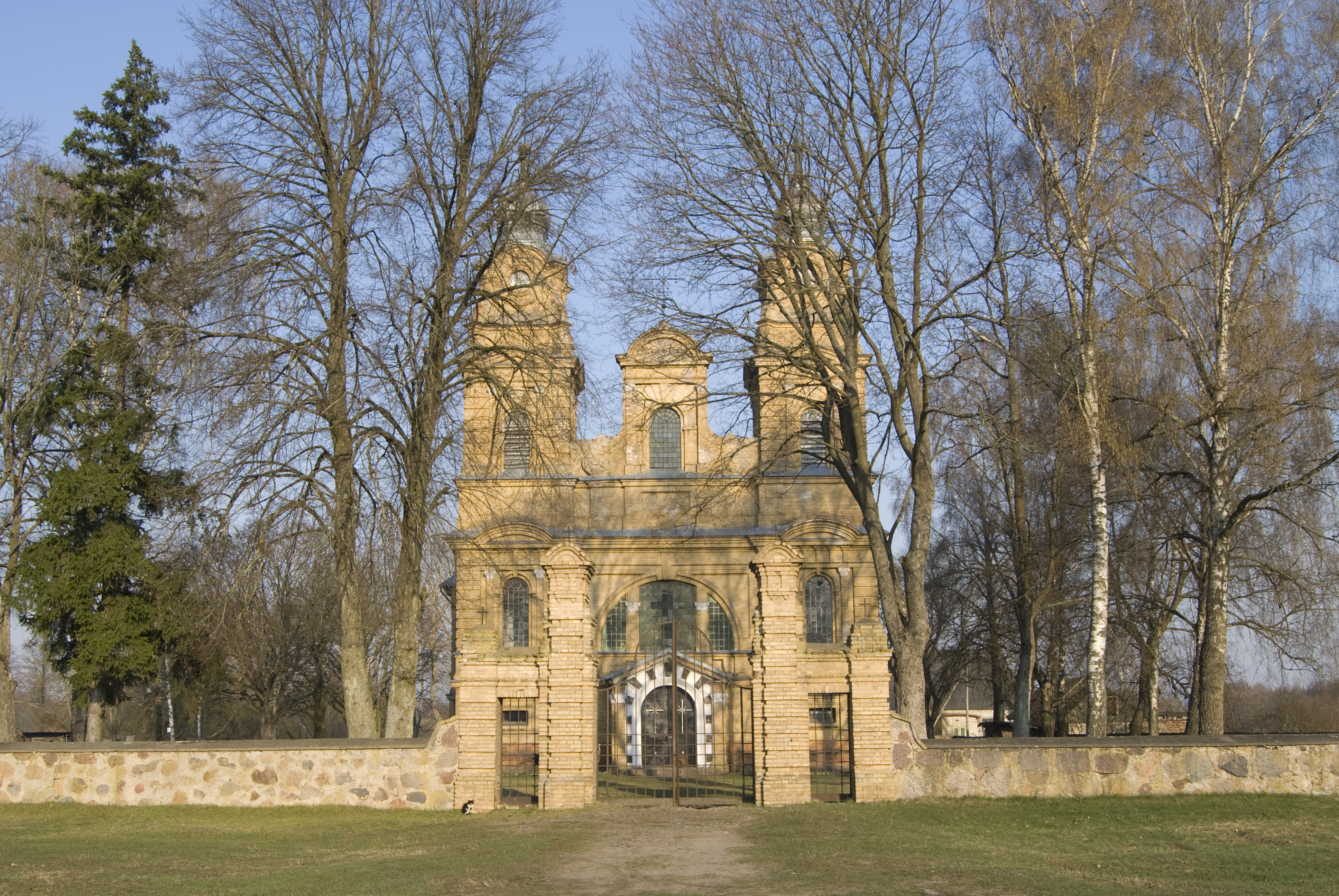 Dvarec - catholic church of St. Anthony of Padua